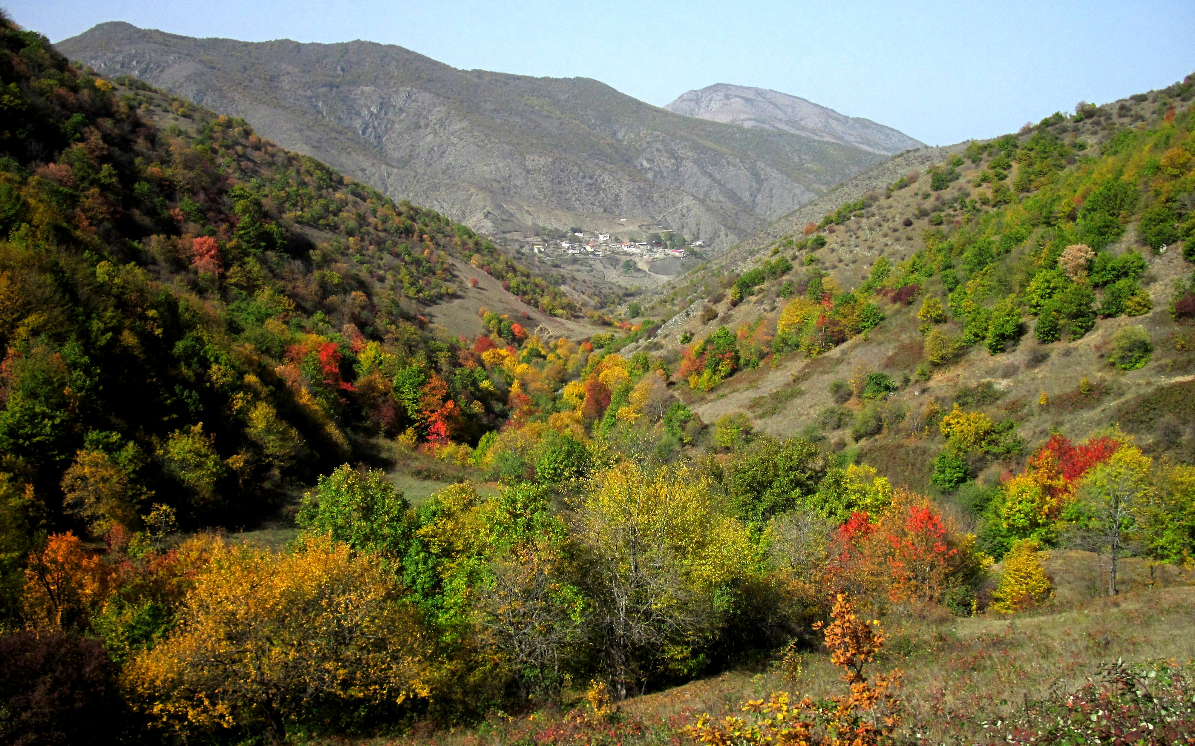 For AbbasAbad KhodaAfarin wiki page